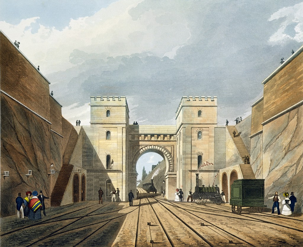 The Moorish Arch in the cuttings at Edge Hill on the Liverpool and Manchester Railway, where locomotives were originally attached and detached from trains. The arch, designed by the Liverpool architect John Foster, responded to the railway directors' desire for a monumental ornate structure to mark the entrance of the railway into the city. It also housed the two steam engines, one on either side, that powered the cable railway apparatus which was used to haul wagons with goods from the docks up to Edge Hill through the Wapping tunnel, and passenger carriages up the final stretch from Edge Hill to the railway terminus at Crown Street. First class passengers could also join the trains here, conveyed by horse-drawn carriages from Dale Street in the city centre. Steam and smoke from the engines was ducted through flues in the rockface on either side to two tall chimneys, nicknamed "the Pillars of Hercules", at the other end of the cutting. The arch was demolished in 1864, when the right hand (south) side of the cutting was widened out. (Another source says the late 1830s [1], p. 19)